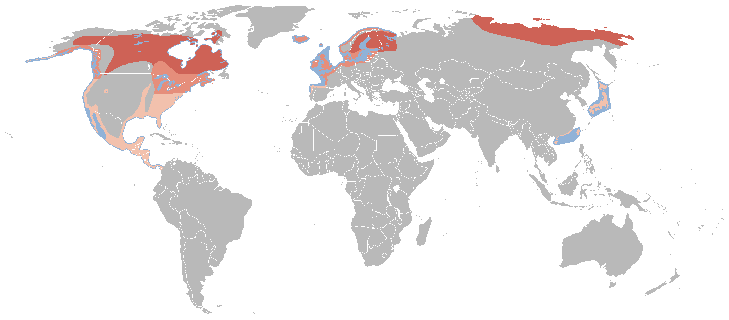 Combined world distribution map of Herring Gull Larus argentatus (Europe), American Herring Gull Larus smithsonianus (North America), and Vega Gull Larus vegae (E Asia), based on data from "Handbook of the birds of the world" by del Hoyo et al.